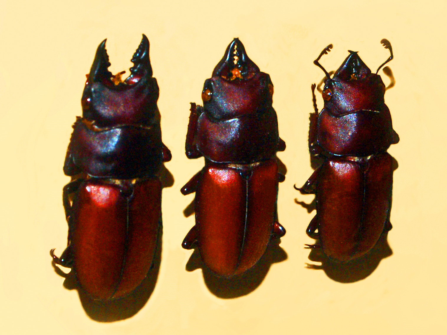 Prosopocoilus antilope from São Tomé Island. Male and female